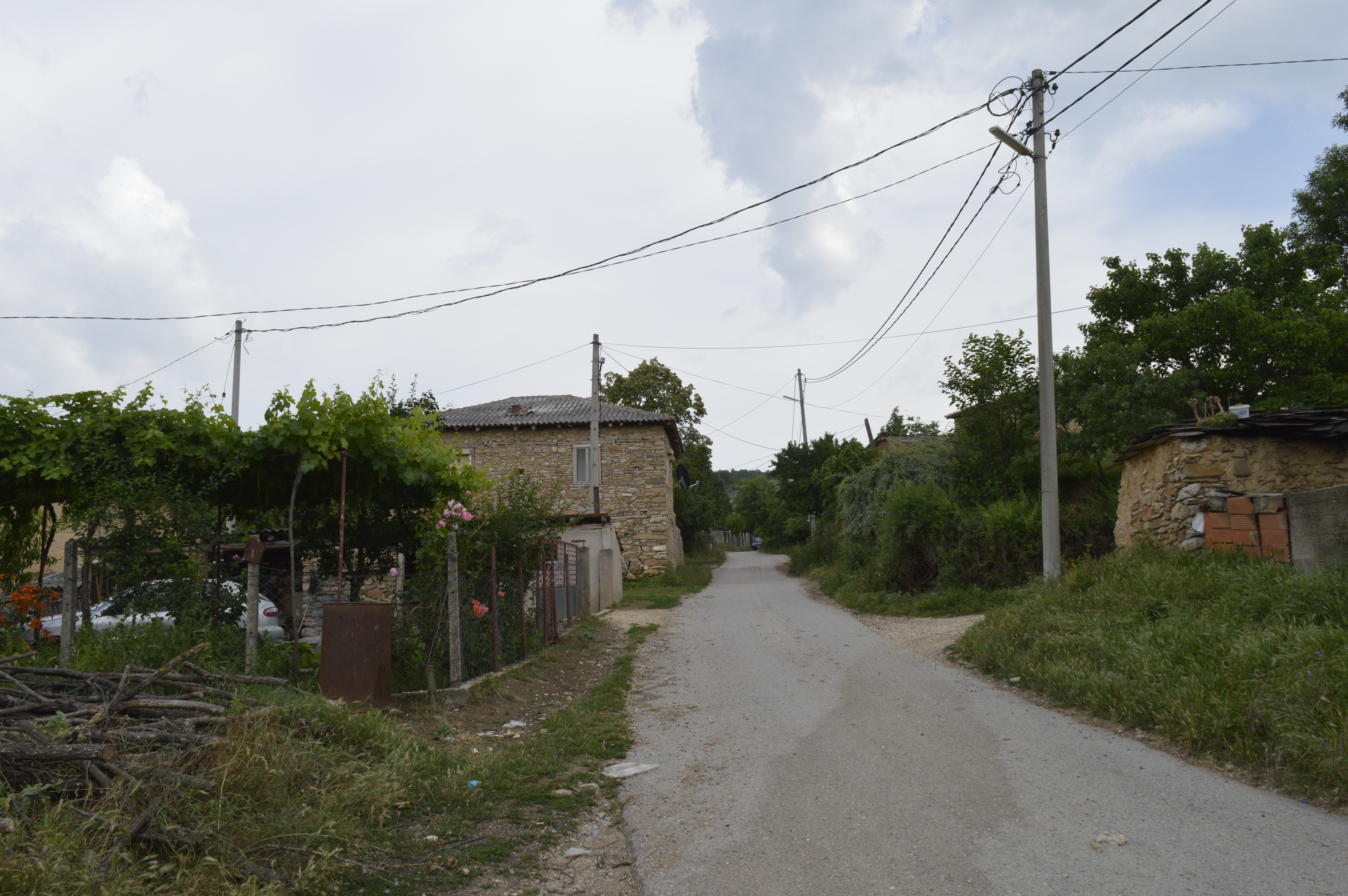 Street in the village Vladilovci